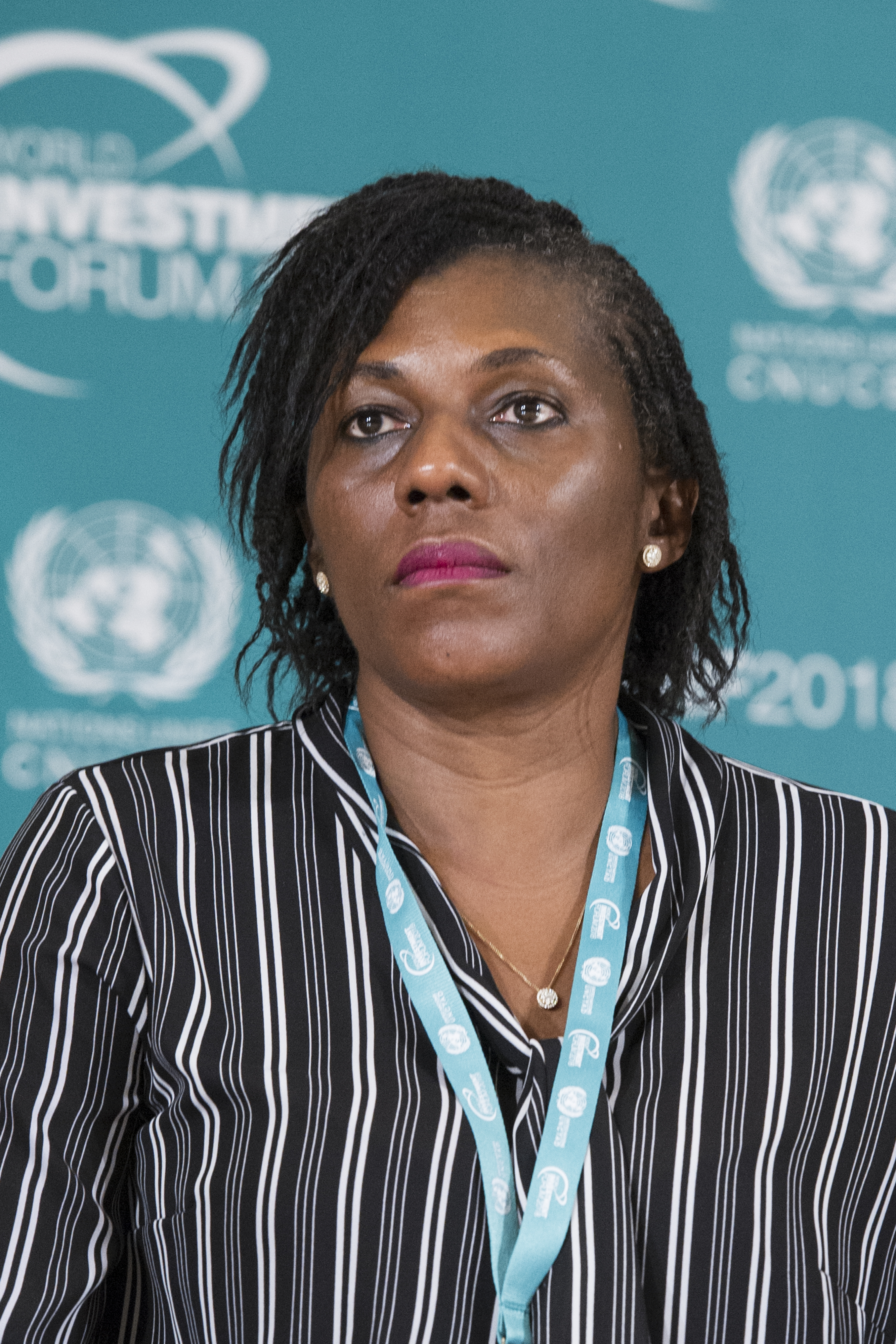 Juliet Anammah, CEO, Jumia Nigeria attends the Global Investment Game Changers Summit, World Investment Forum 2018 , Palais des Natios. 22 October 2018. UNCTAD photo by Violaine Martin